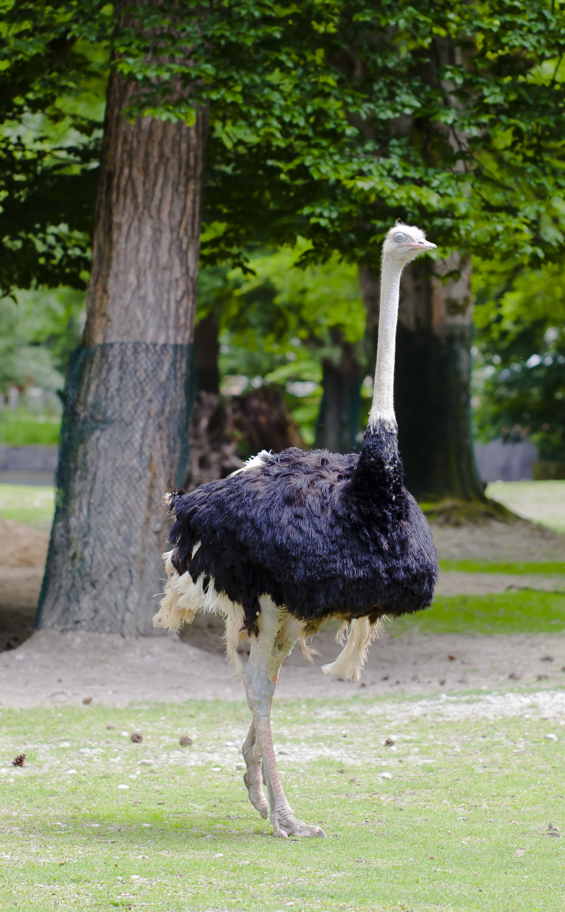 Ostrich (Struthio camelus), Tierpark Hellabrunn, Munich, Germany